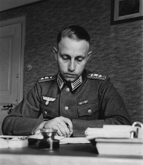 An Armed Forces Official (Wehrmachtbeamte)